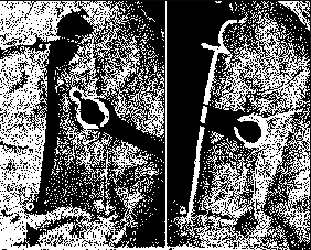 Drawing of Rupes Recta by Thomas Gwyn Elger. North is in lower left.